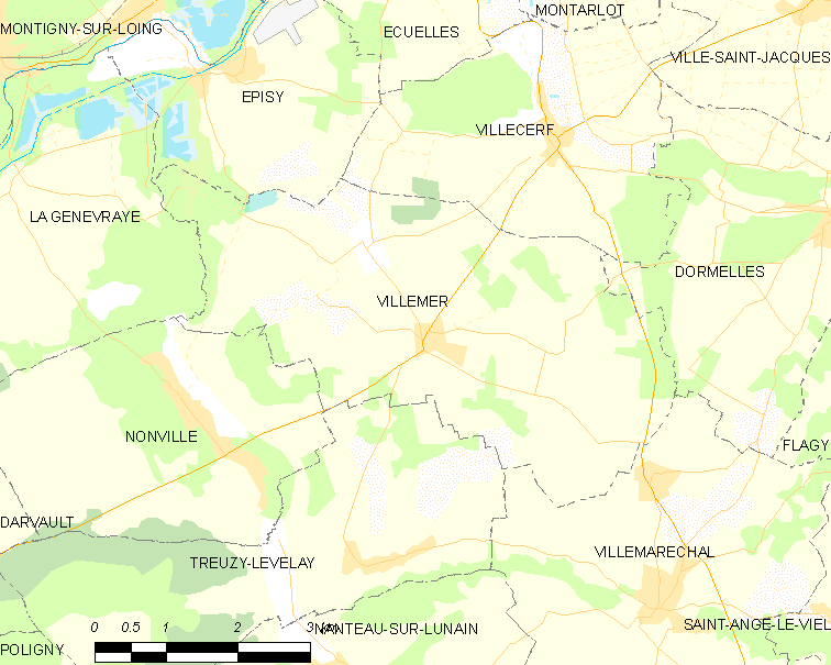 Map of French municipality Villemer